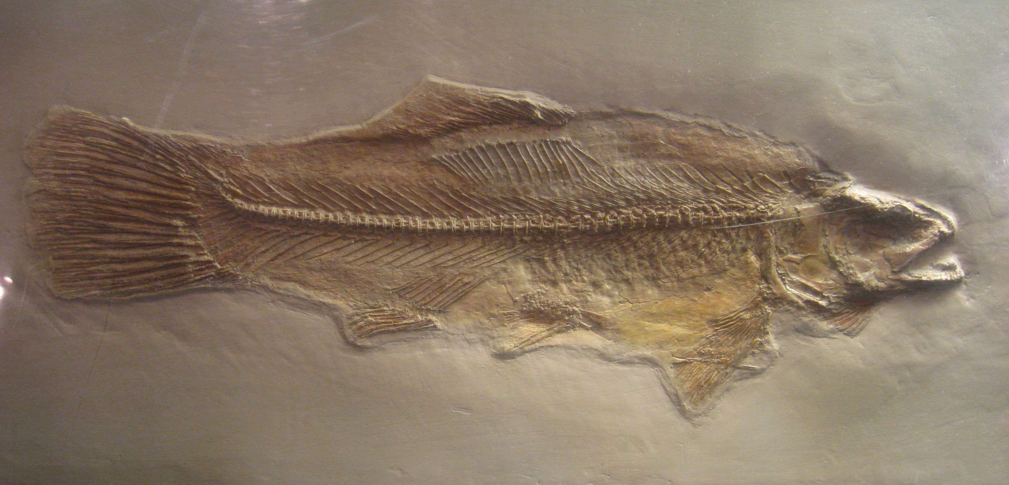 Solnhofenamia elongata (jr synonym Urocles elongatus) fossil specimen in the National Museum of Natural History, Smithsonian Institution, Washington, DC, USA.